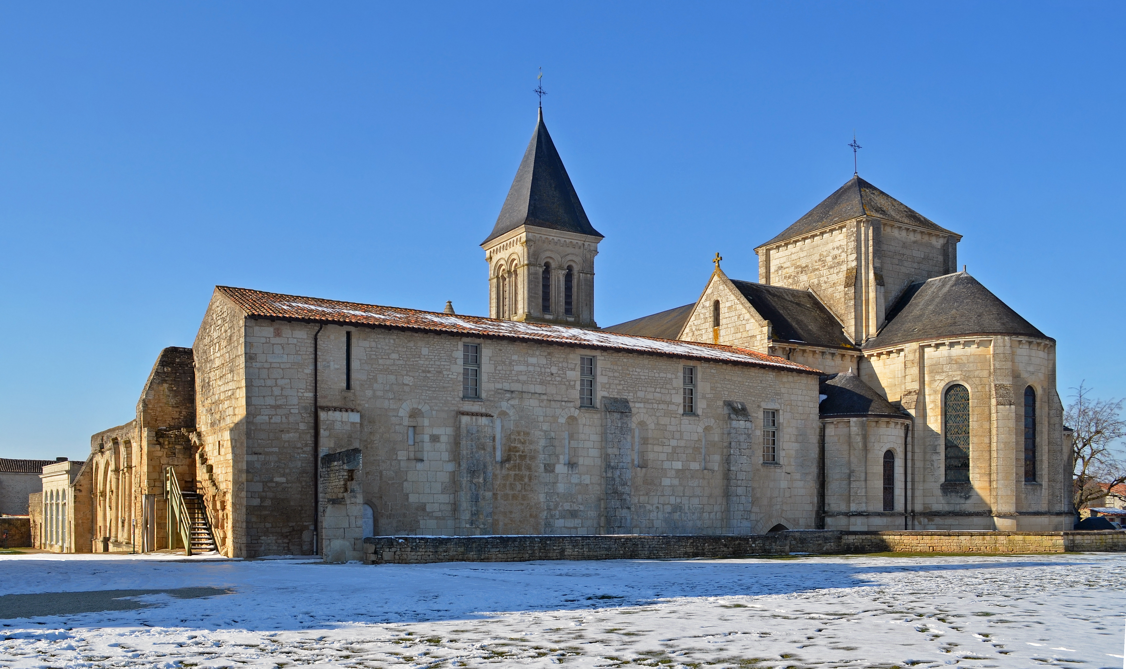 Saint-Vincent abbey in Nieul-sur-l'Autise (Vendée, France) .